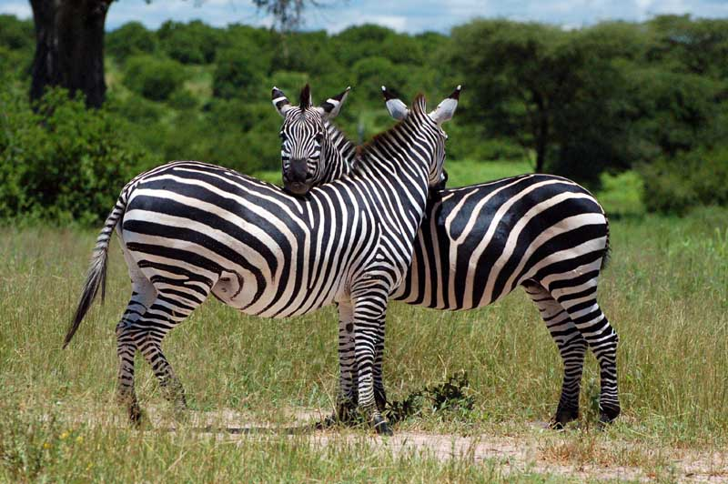 Zebras in Ruaha National Park.